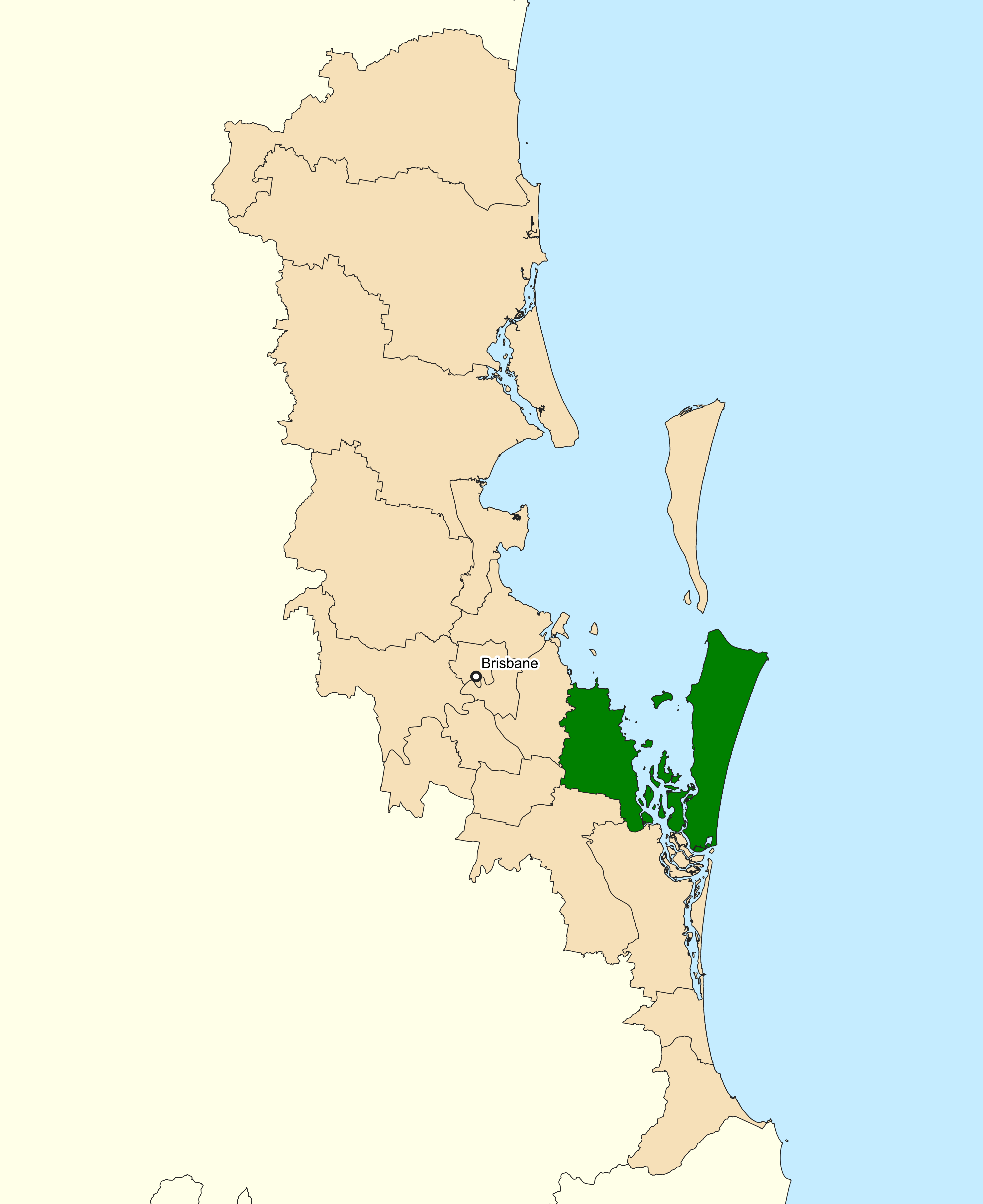 Location of the Australian federal electoral division of Bowman (dark green) in Greater Brisbane, Queensland as of the 2019 Australian federal election. Incorporates or developed using Administrative Boundaries ©PSMA Australia Limited licensed by the Commonwealth of Australia under Creative Commons Attribution 4.0 International licence (CC BY 4.0).